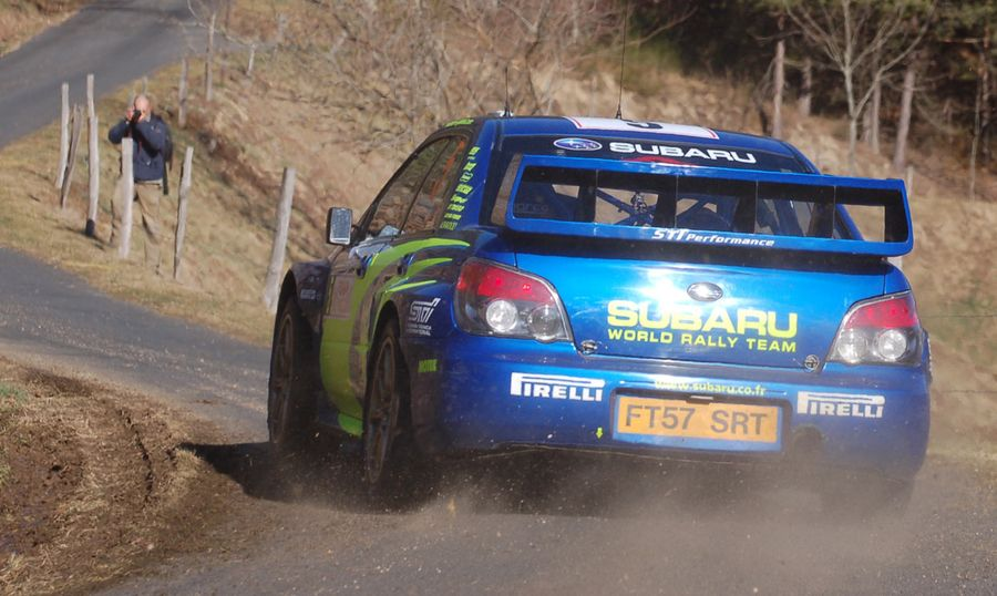 Solberg - Mills In Monte-Carlo Rallye 2008